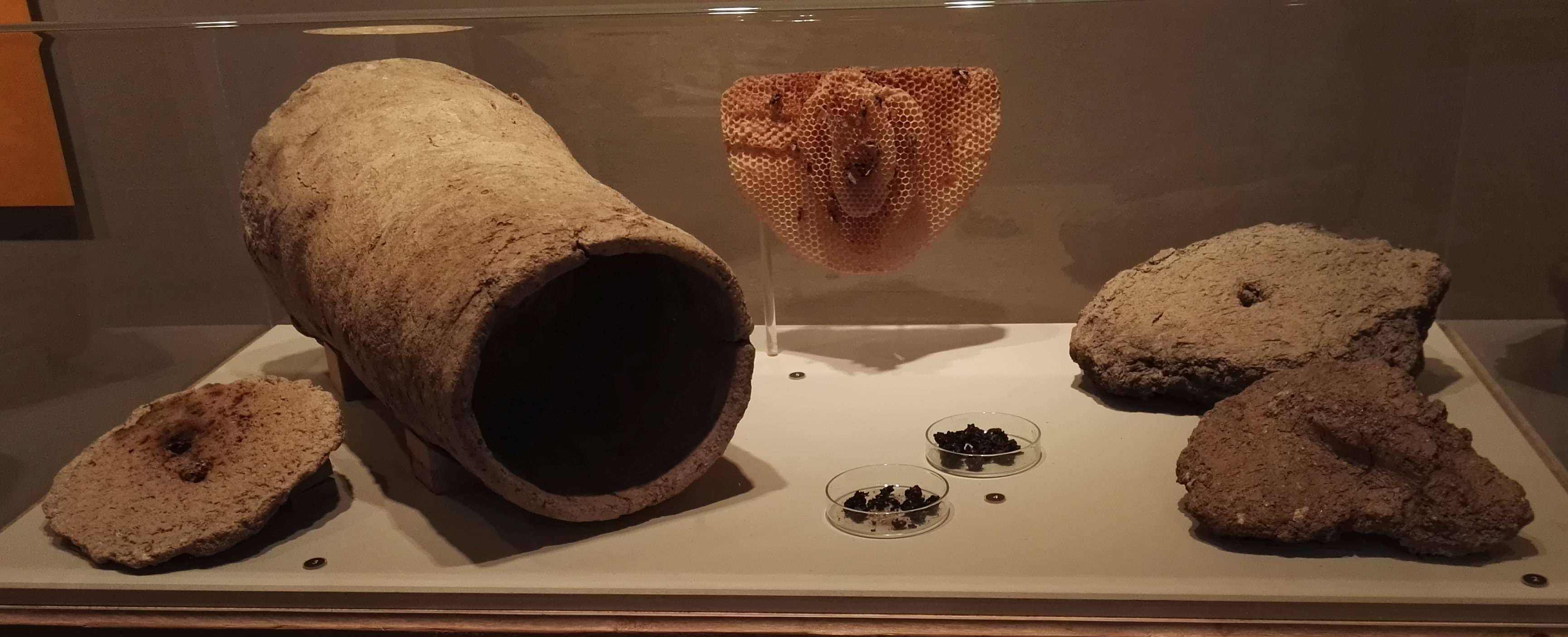 Tel Rehov exhibition in Eretz Israel Museum, Tel Aviv, Israel.